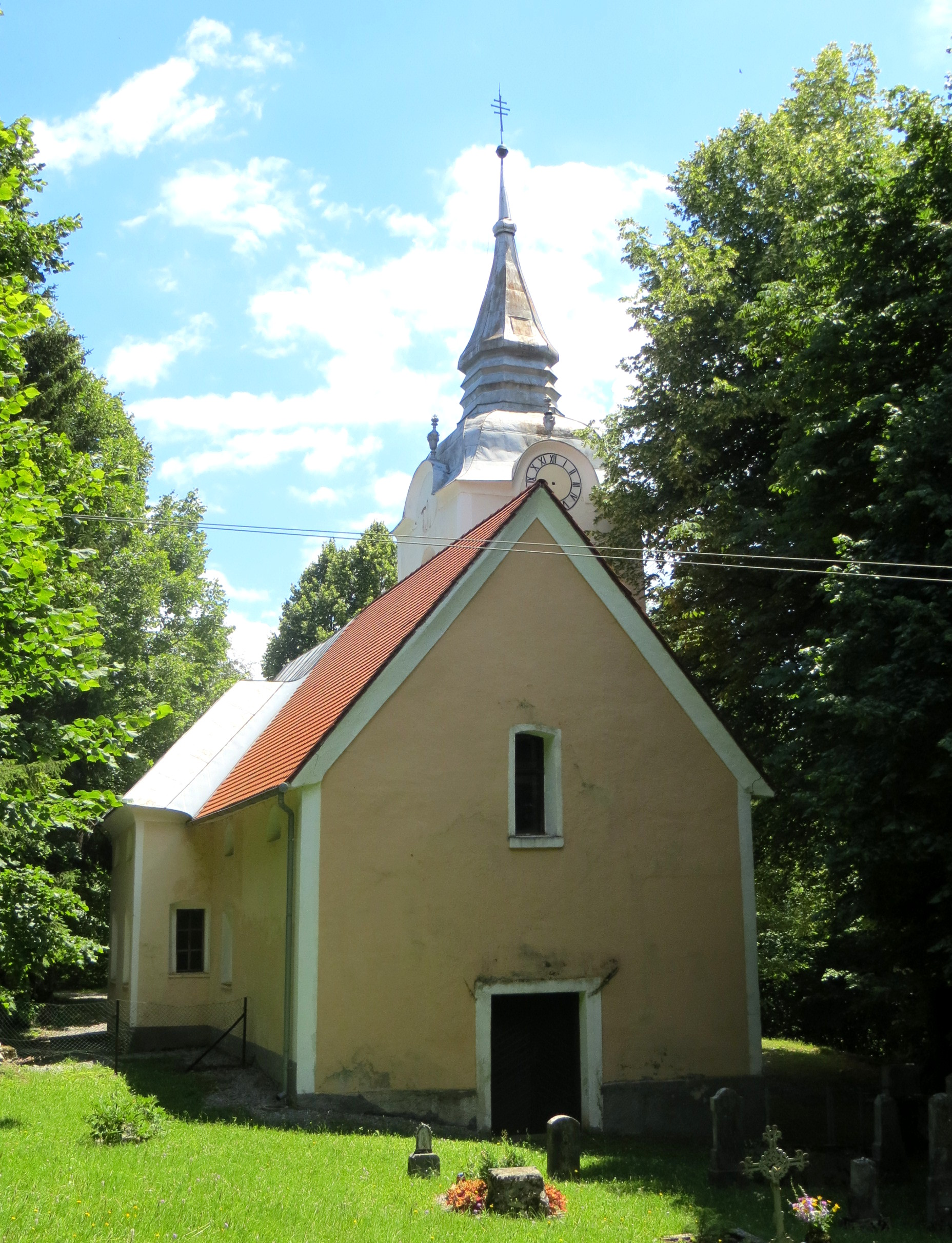 Prophet Elijah Church in Planina, Municipality of Semič, Slovenia